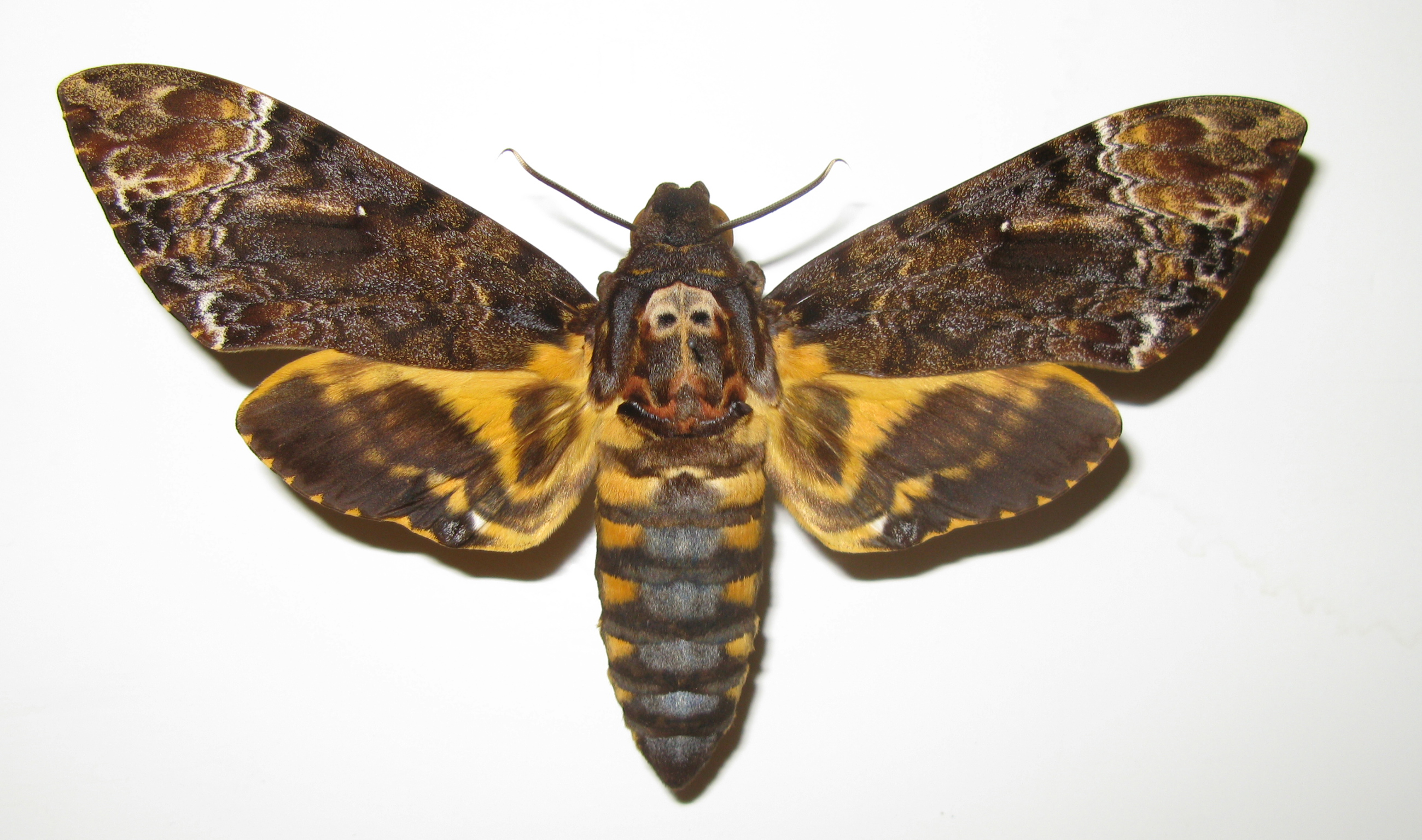 Acherontia lachesis